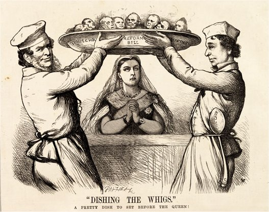 Cartoon: "Dishing the Whigs" From Fun, 24 August 1867, p. 251Lord Derby, Tory Prime Minister, and Benjamin Disraeli, Chancellor of the Exchequer, "dish" their opponents by introducing more liberal reforms than the Whigs/Liberals had contemplated.